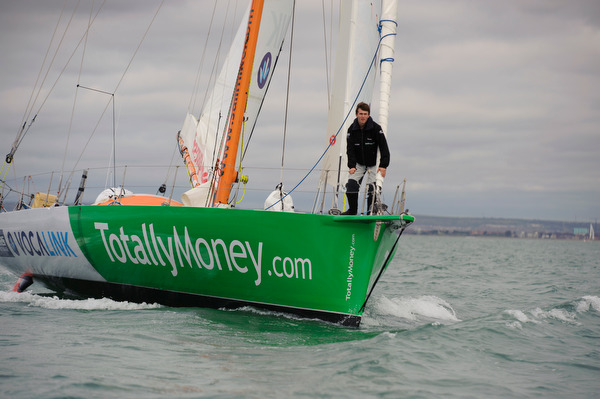 Michael Perham, the youngest person to sail the Atlantic Ocean single-handedly, aboard his boat before launching on his round-the-world attempt.